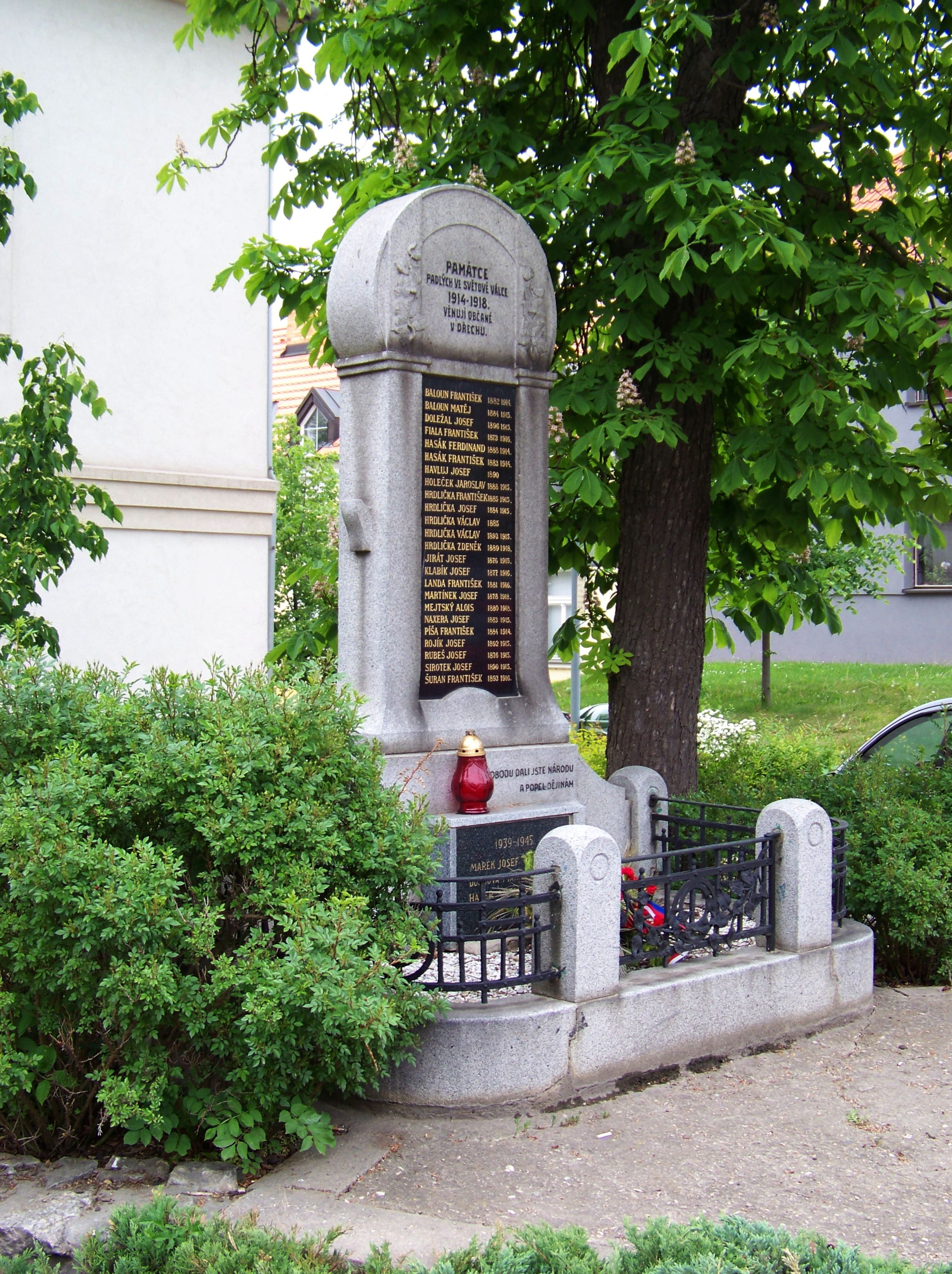 Ořech, Prague-West District,Central Bohemian Region, the Czech Republic. Karlštejnská street, world wars memorial.